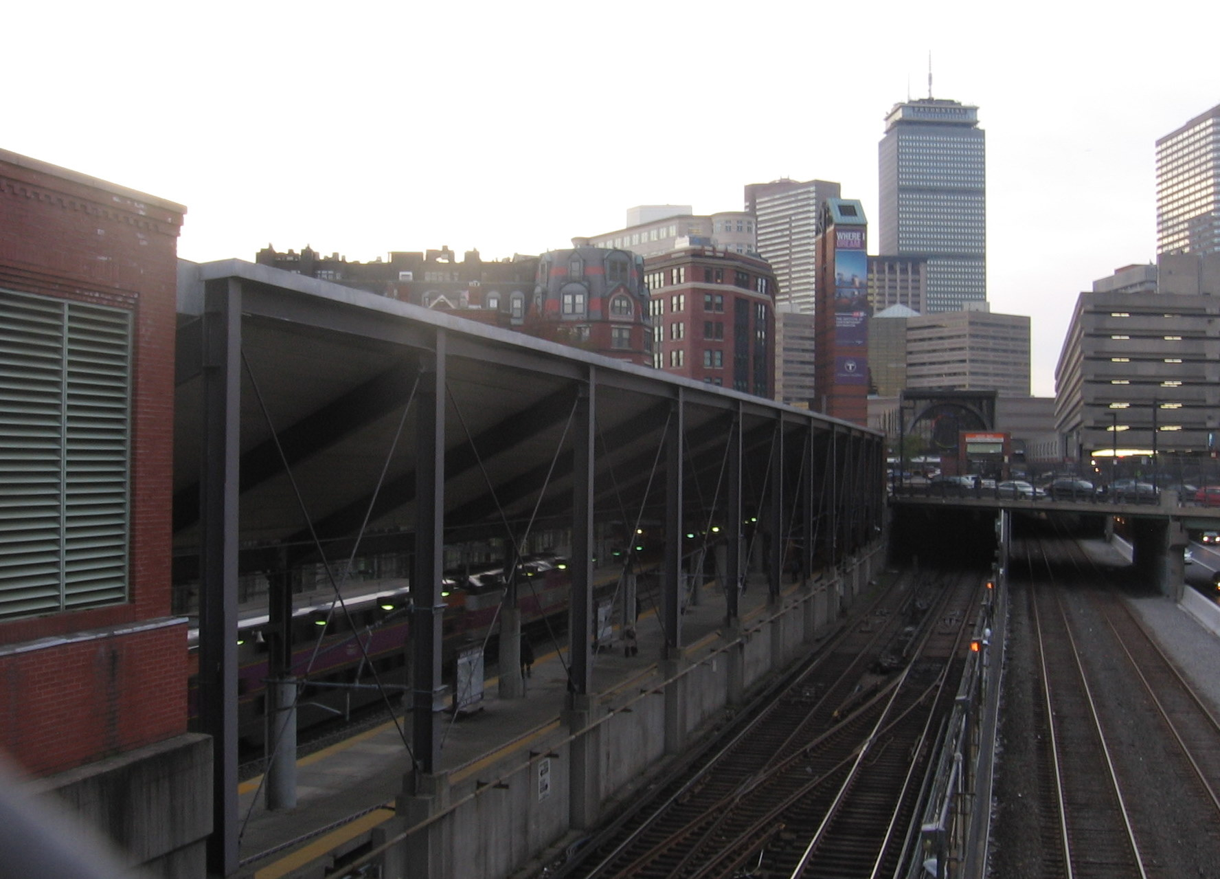 A view of Back Bay station, looking west from the Berkeley Street bridge. The main station building and the Clarendon Street Orange Line exits are visible in the background. From left to right: Northeast Corridor: Track 2 (with train), Track 1, Track 3 (hidden) Orange Line: inbound track, outbound track Framingham/Worcester Line: Track 5, Track 7